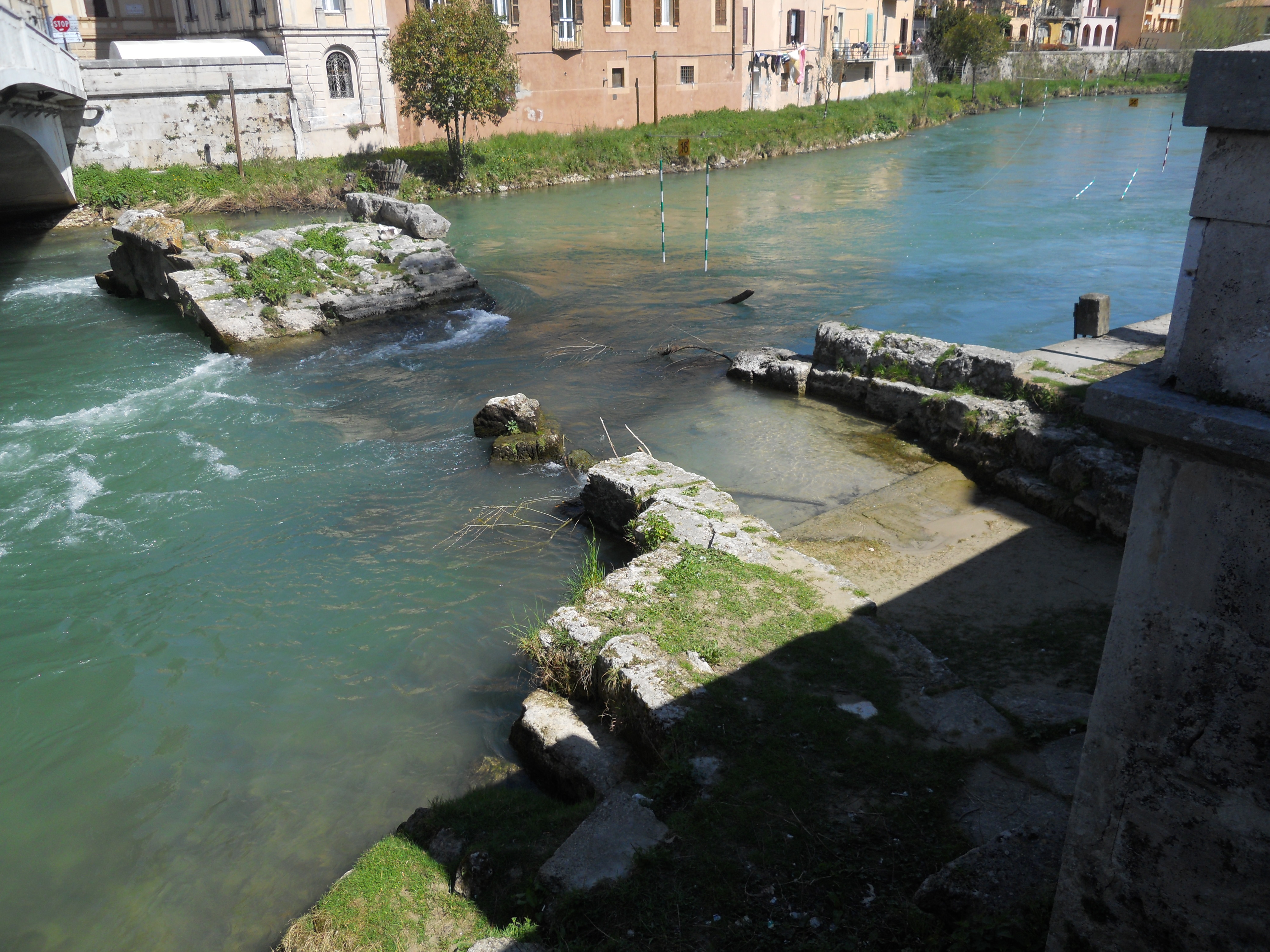 Closeup of the ancient Roman bridge of Rieti, Italy